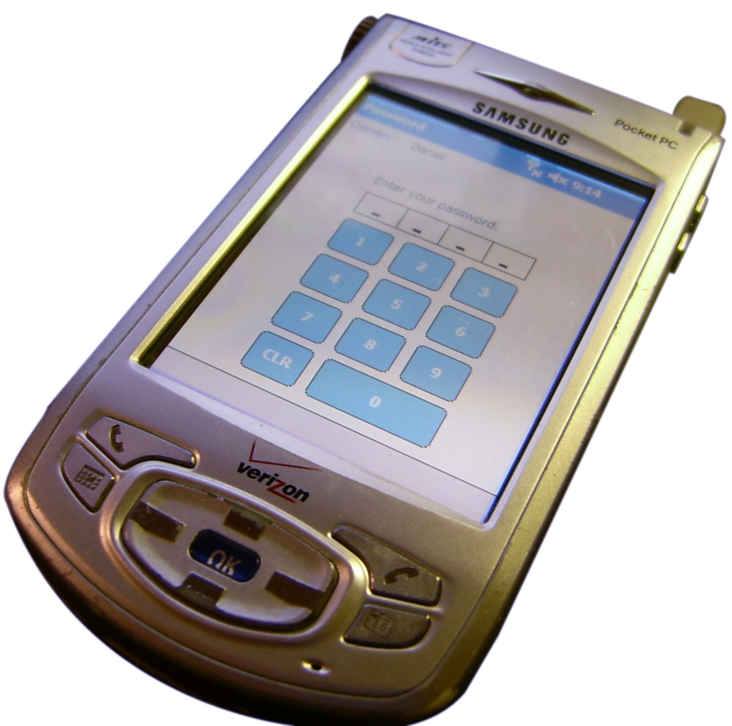 A photo of the Samsung SPH-i700 PocketPC, Running Windows Mobile 2003, at the enter password screen.